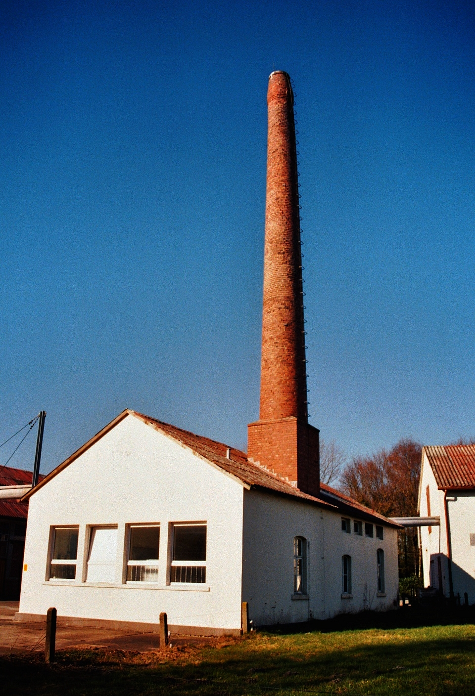 Building of the Kerzenfabrik G.& W. Jaspers GmbH und Co. KG in Hopsten-Staden, Kreis Steinfurt, North Rhine-Westphalia, Germany.